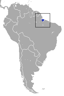 Marajó Short-tailed Opossum (Monodelphis maraxina) range